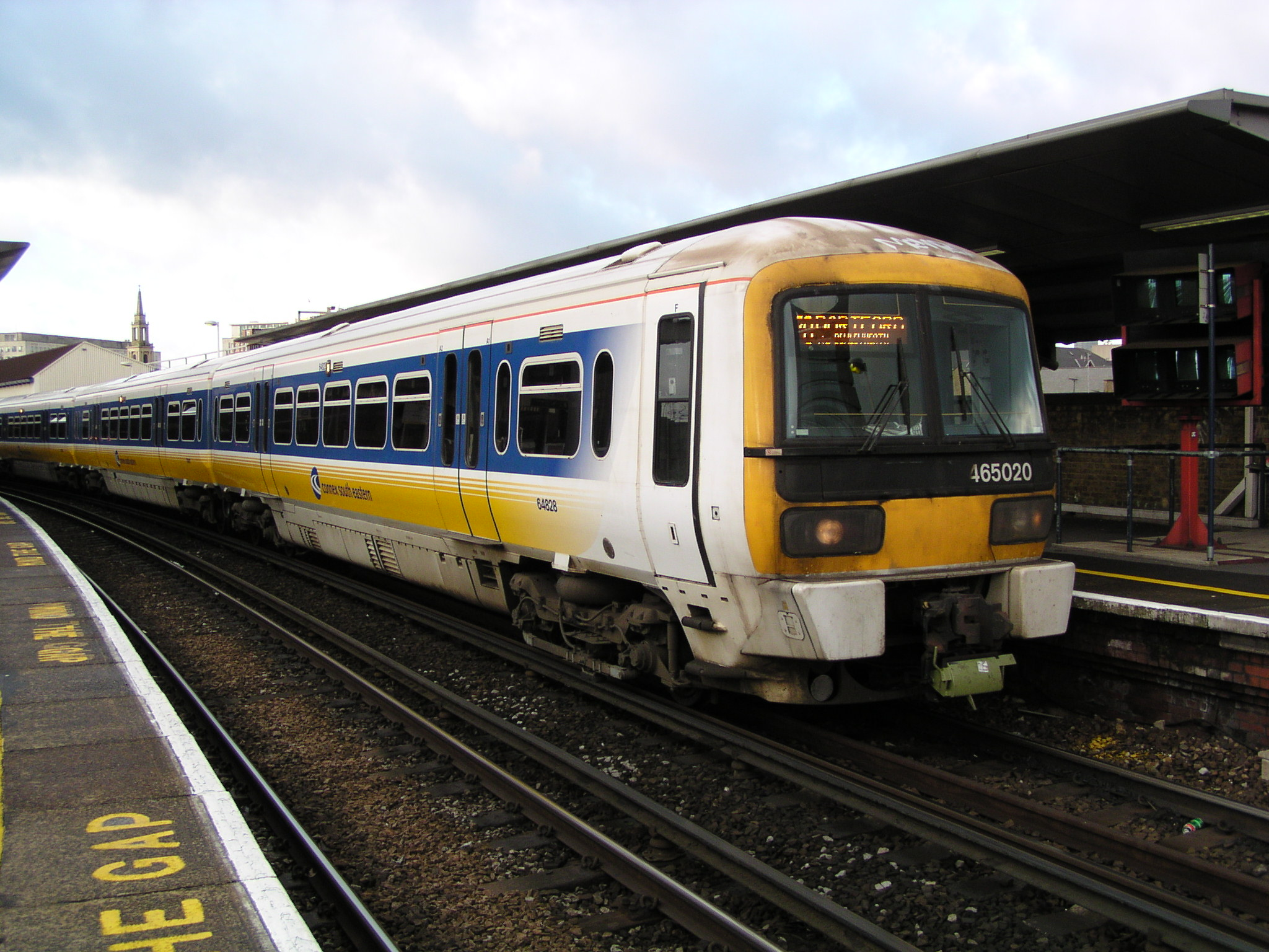 BR Class 465/0, no. 465020 at Waterloo East on 25th January 2003, with a service to Dartford. This unit carries Connex Networker livery. Image by Phil Scott (Our Phellap)